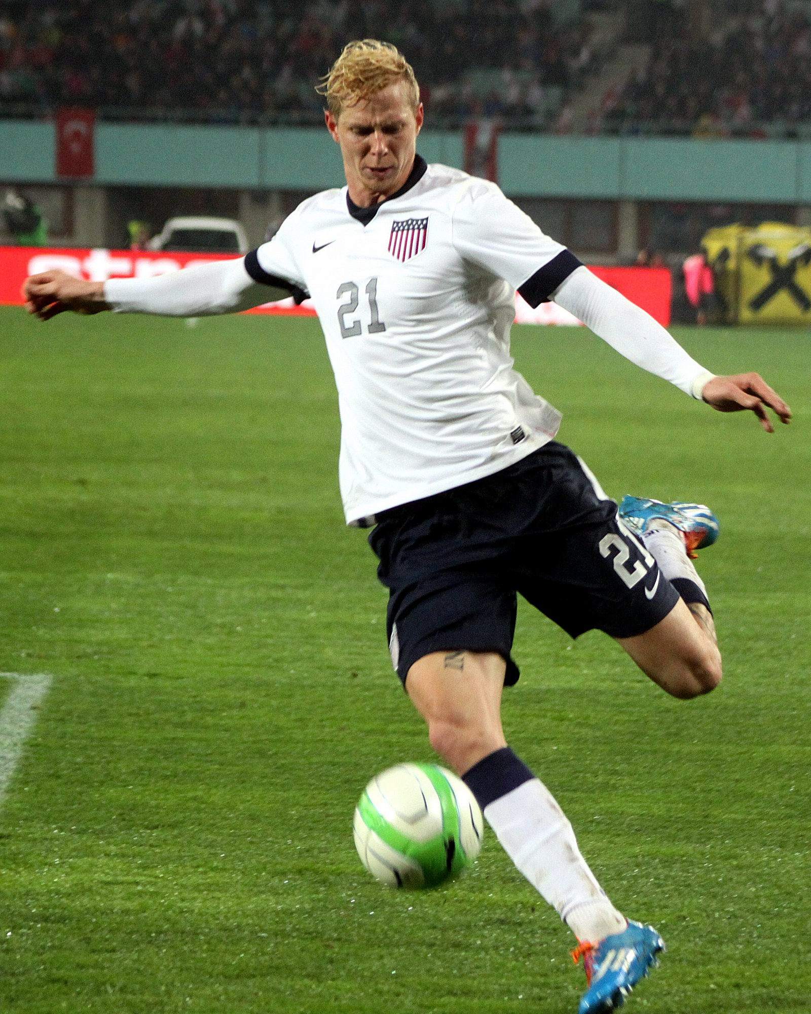 Friendly-match Austria vs. USA (1:0) in the Ernst-Happel-Stadion in Vienna at 2013-03-22. – The photo shows Brek Shea (USA).